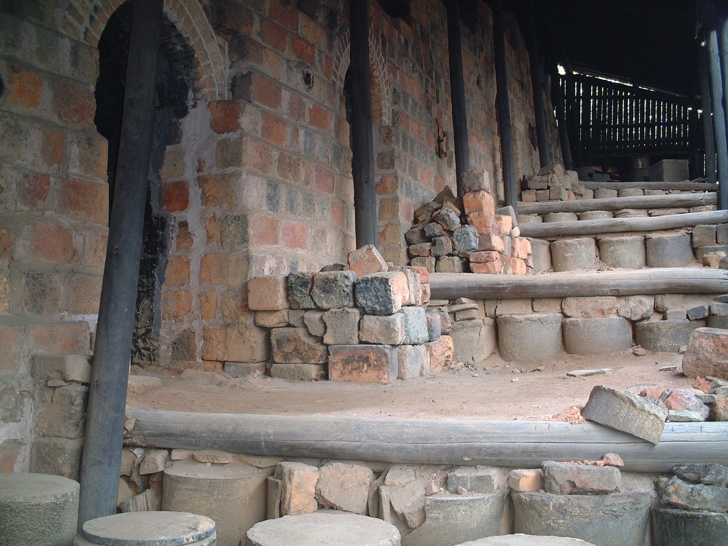 Noborigama. Photo taken in Tokoname Aichi Japan.